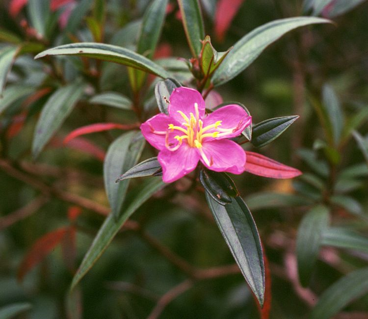 Melastoma malabathricum, Melastomataceae - Kambodscha/Cambodia, Phnom Bokor Nationalpark, an der Straße unter "Black Palace" (Prov. Kampot)